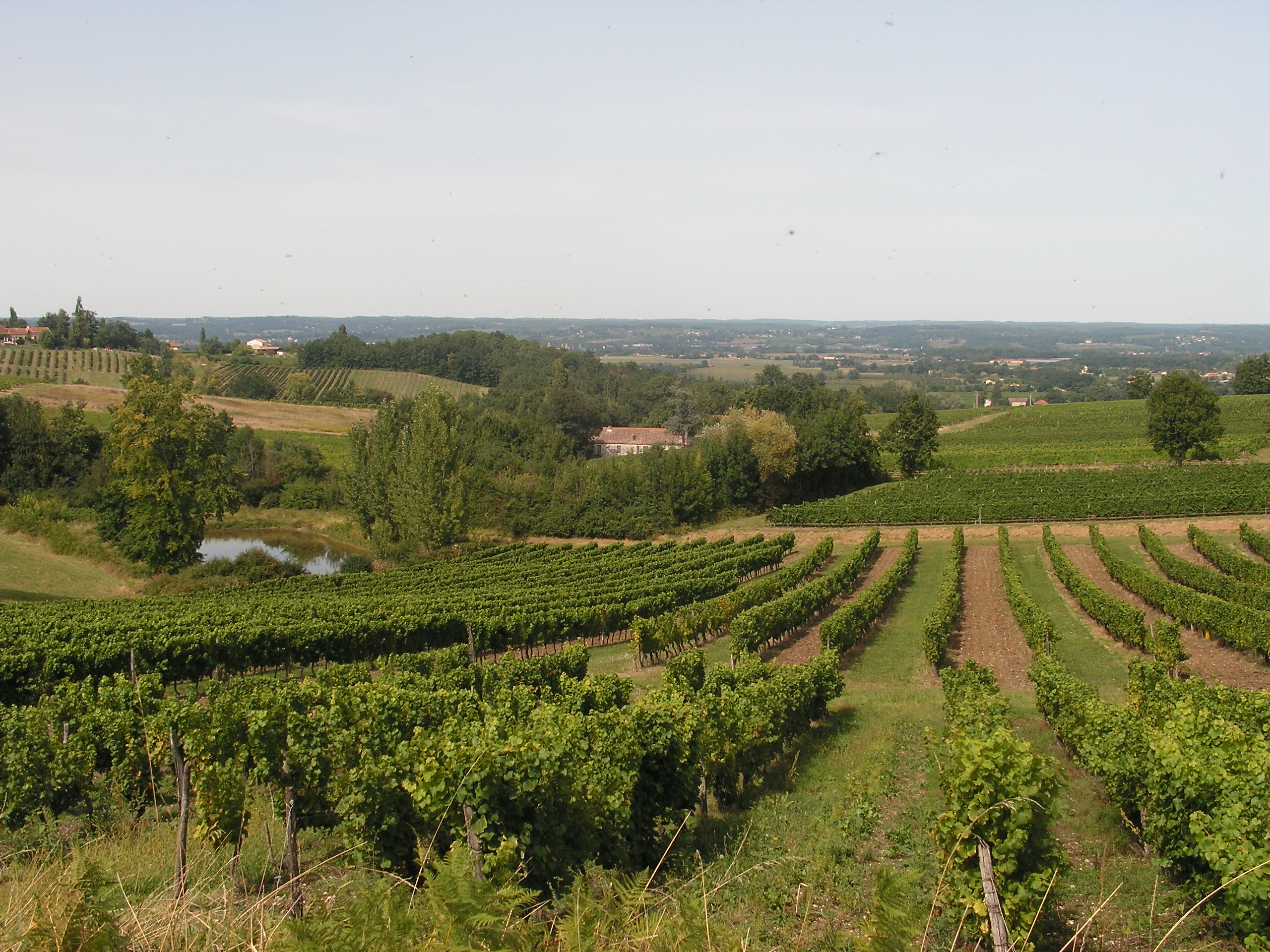 Colombier (Dordogne)